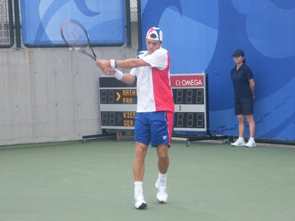 Paul-Henri Mathieu at the Beijing 2008 Olympic Games.